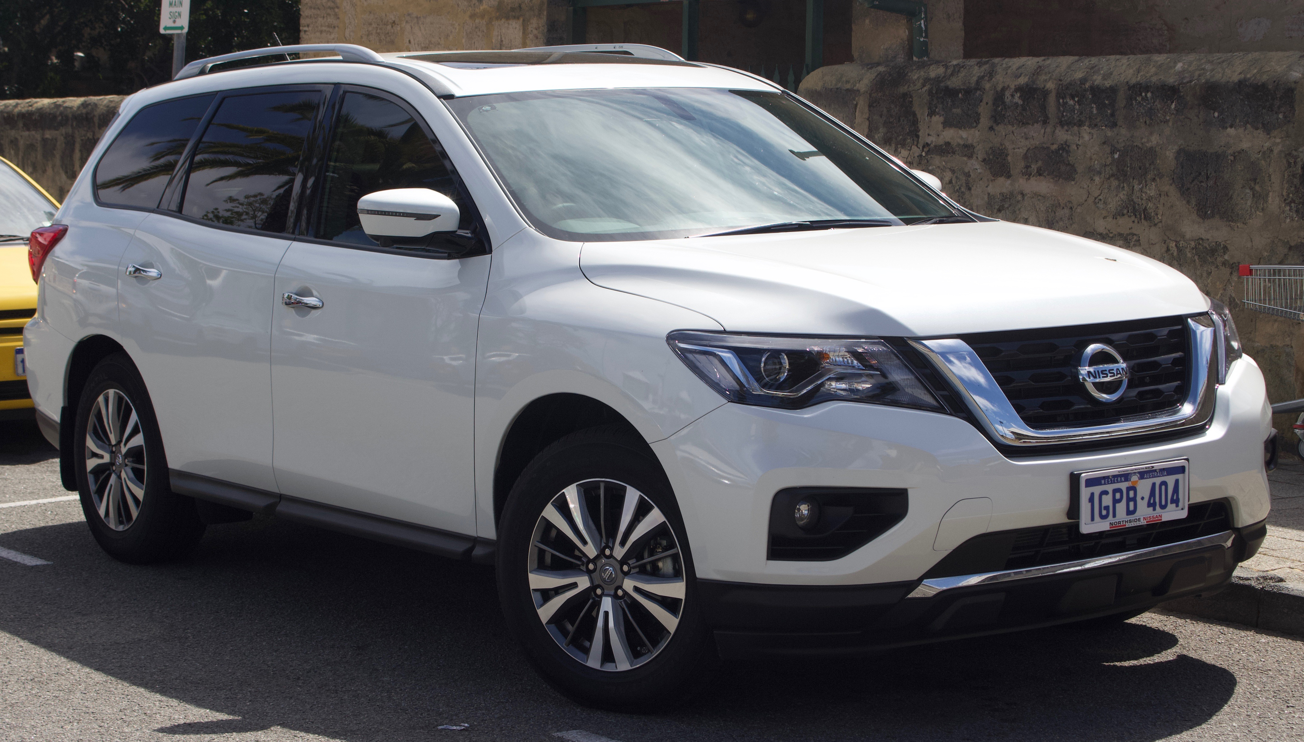 2018 Nissan Pathfinder (R52 MY18) ST-L wagon. Photographed in Fremantle, Western Australia, Australia.